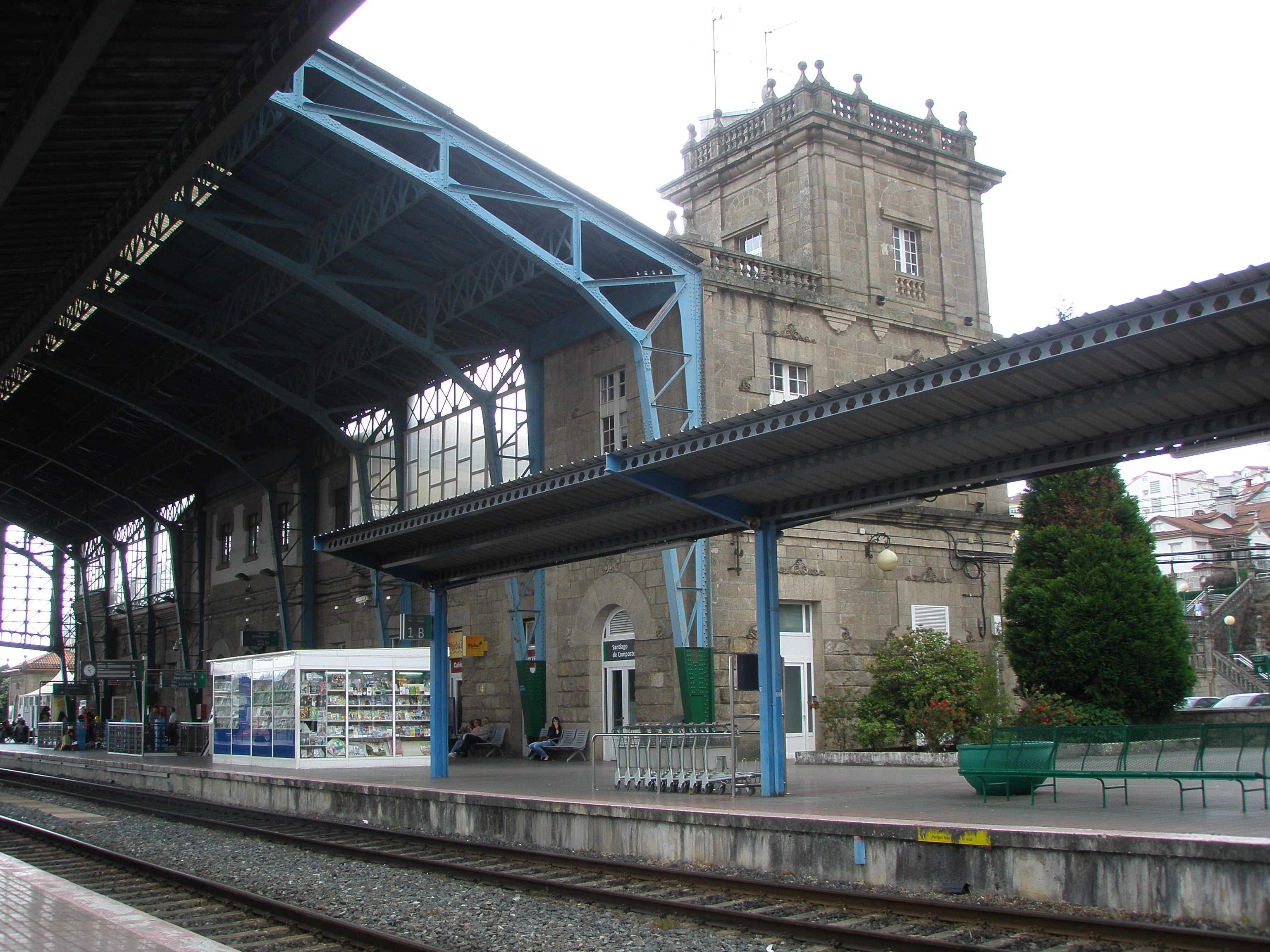 Railway station in Santiago de Compostela, Spain.